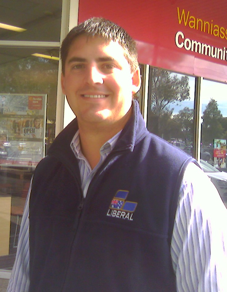 Andrew Wall liberal candidate for Brindabella electorate Canberra at Wanniassa shops